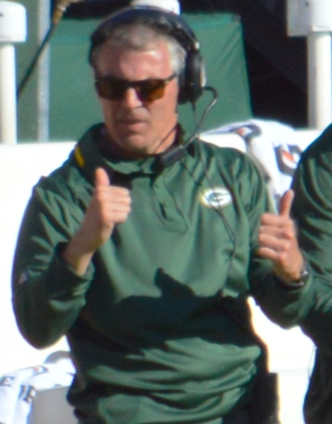 Green Bay Packers offensive coordinator Tom Clements during the game against San Francisco 49ers.